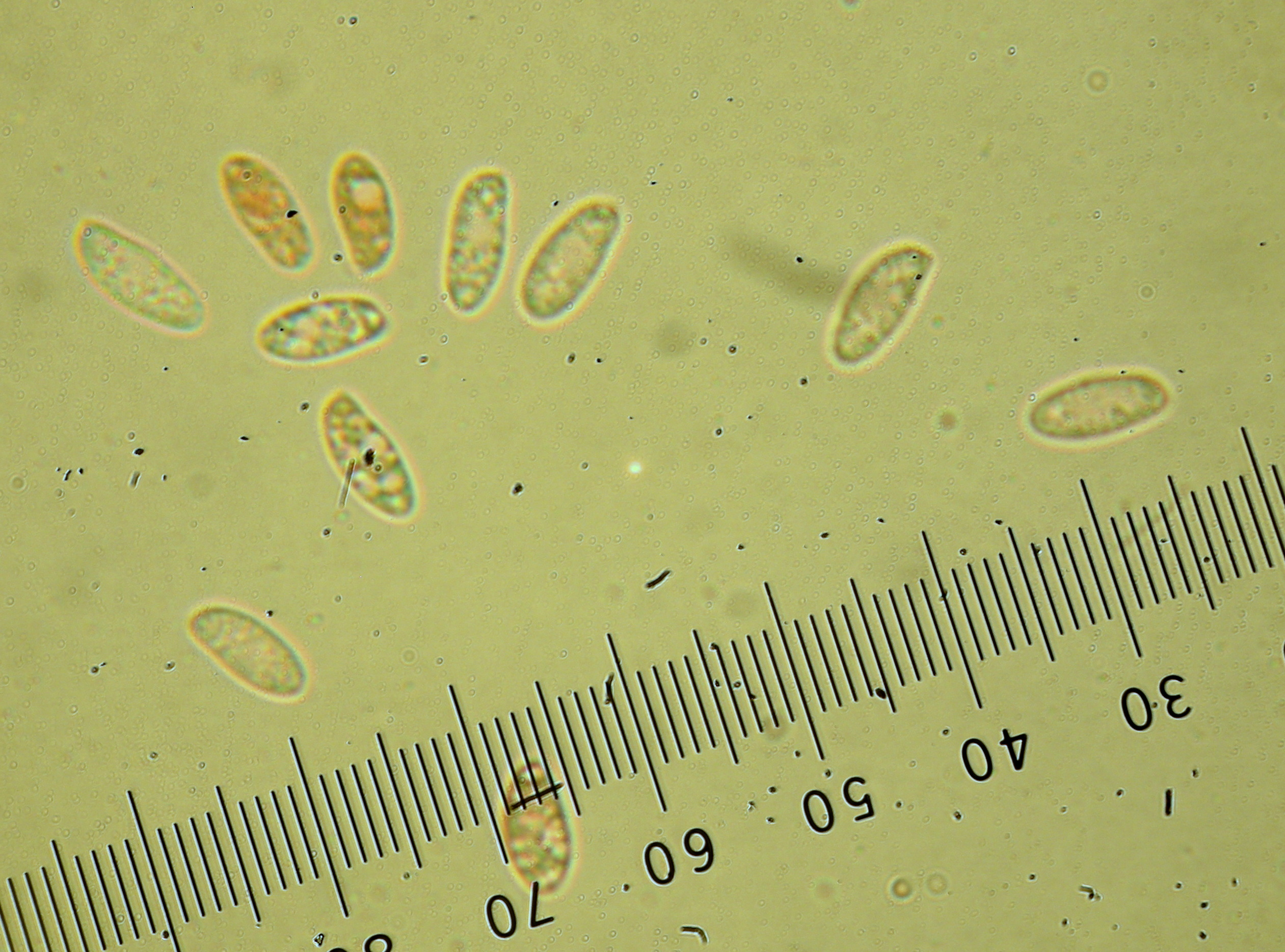 Royoporus badius (Pers.) A.B. De